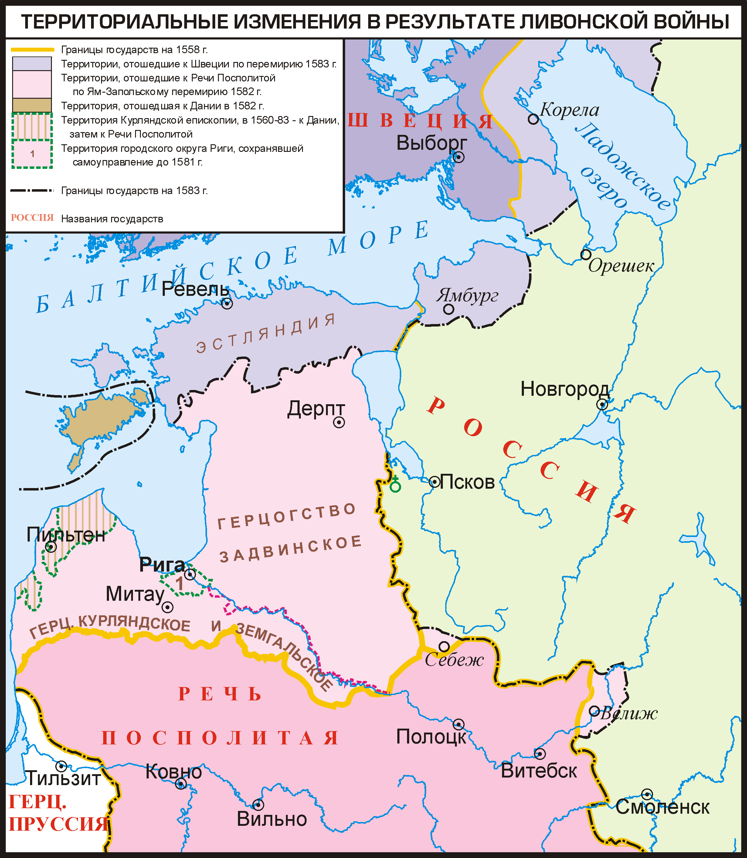 Political situation in Baltic reagion after Livonian War in 1583.